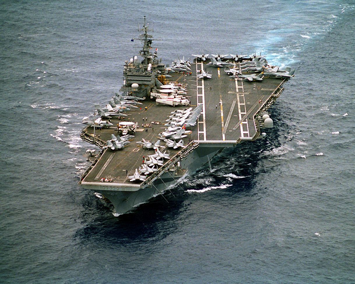 970414-N-0789S-003 Pacific Ocean (Apr. 14, 1997) -- USS Constellation (CV 64) enroute to the Arabian Gulf to enforce no-fly zones and monitor shipping to and from Iraq. Official U.S. Navy photograph by Airman Photographer’s Mate Neil H. F. Sheinbaum (RELEASED)